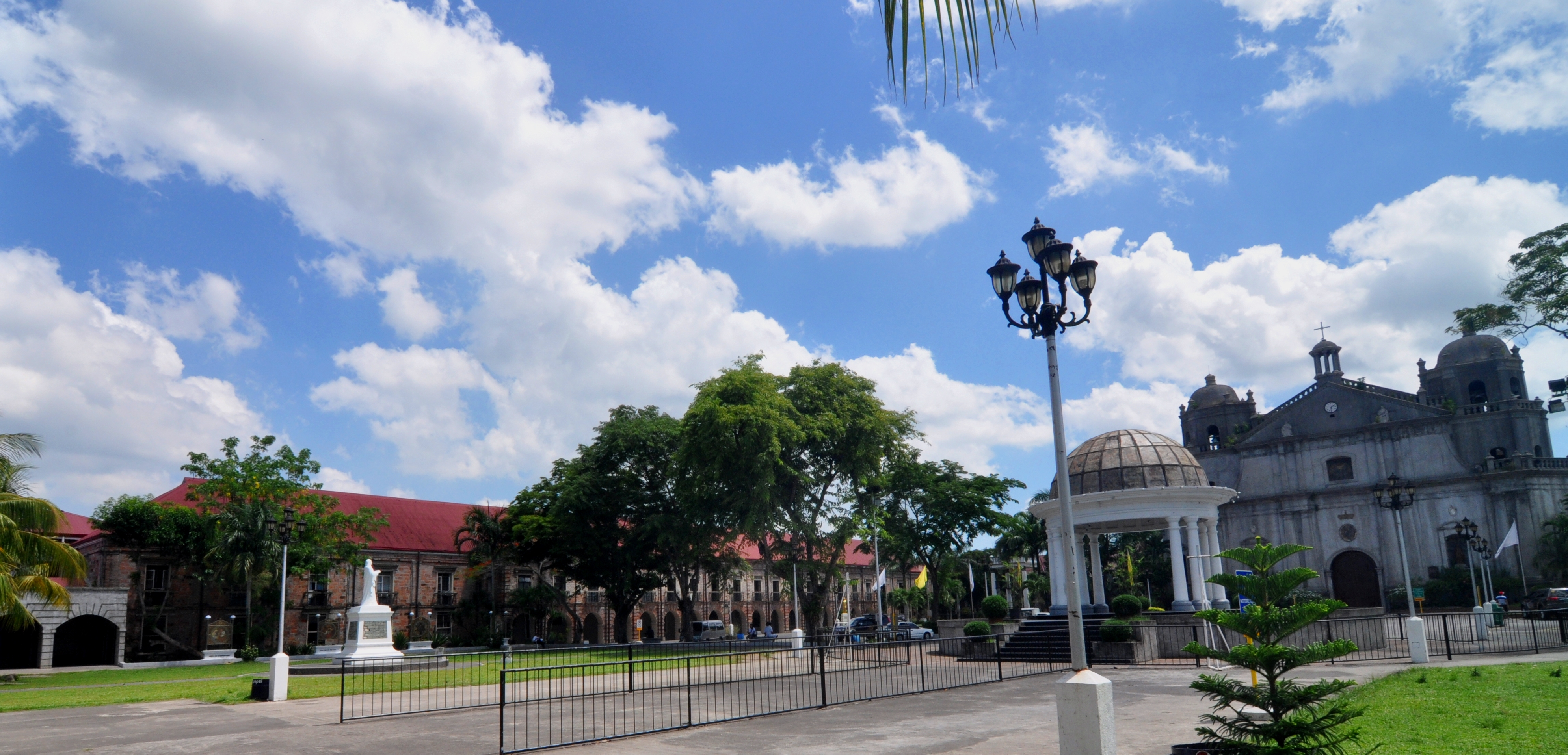 Both are marked as National Historical Landmark by the National Historical Commission of the philippines